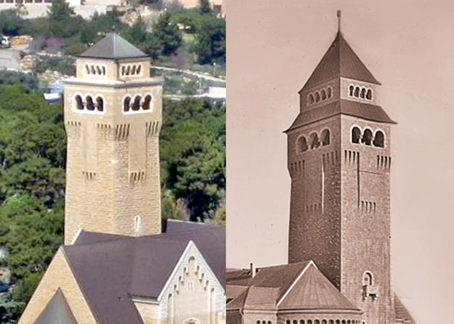 What happened to tower of Protestant Ascension Church at Augusta Victoria's along the years? Earth quake 1927.